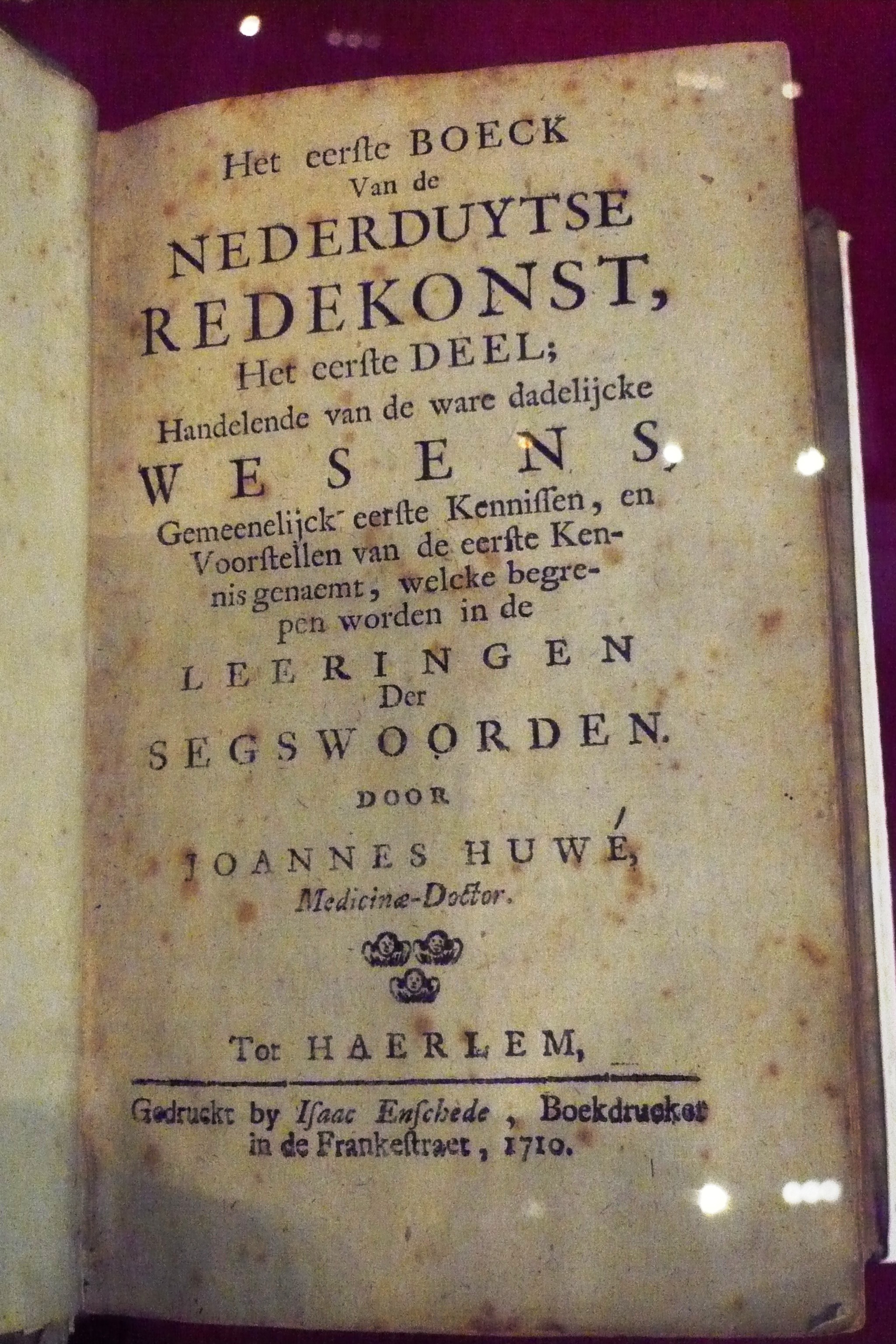 Exhibition about Haarlem printing company Joh. Enschedé in St. Janskerk, Haarlem, by North Holland archives Het eerste boeck van de nederduytse redenkonst, book by Johannes Huwé and printed by Isaac Enschedé in the Frankestraat, Haarlem, in 1710